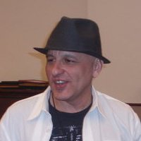 A photo of Prvoslav Vujčić.